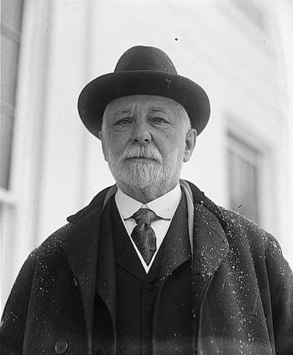 William Stevens Fielding (1848 – 1929), Canadian journalist, politician, and Premier of Nova Scotia